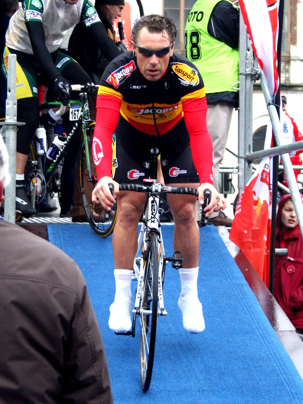 Niko Eeckhout at the start of "Omloop het Volk" 2007Niko Eeckhout